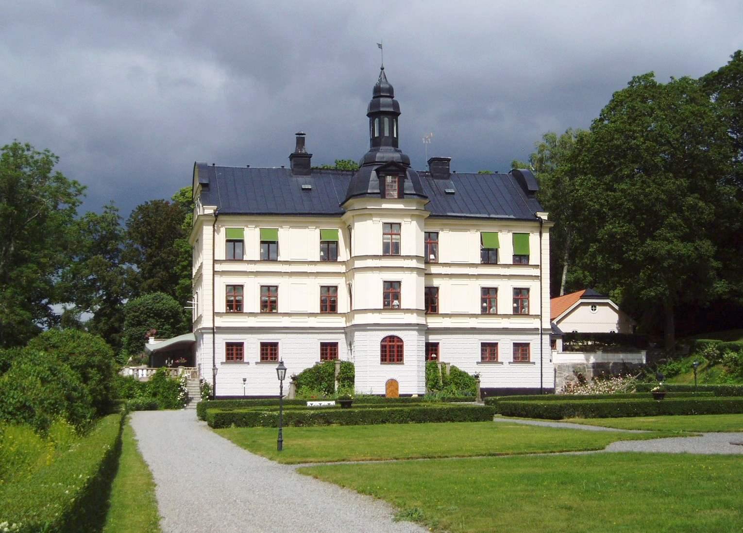 Torsåker castle, Upplands-Väsby municipality, Sweden